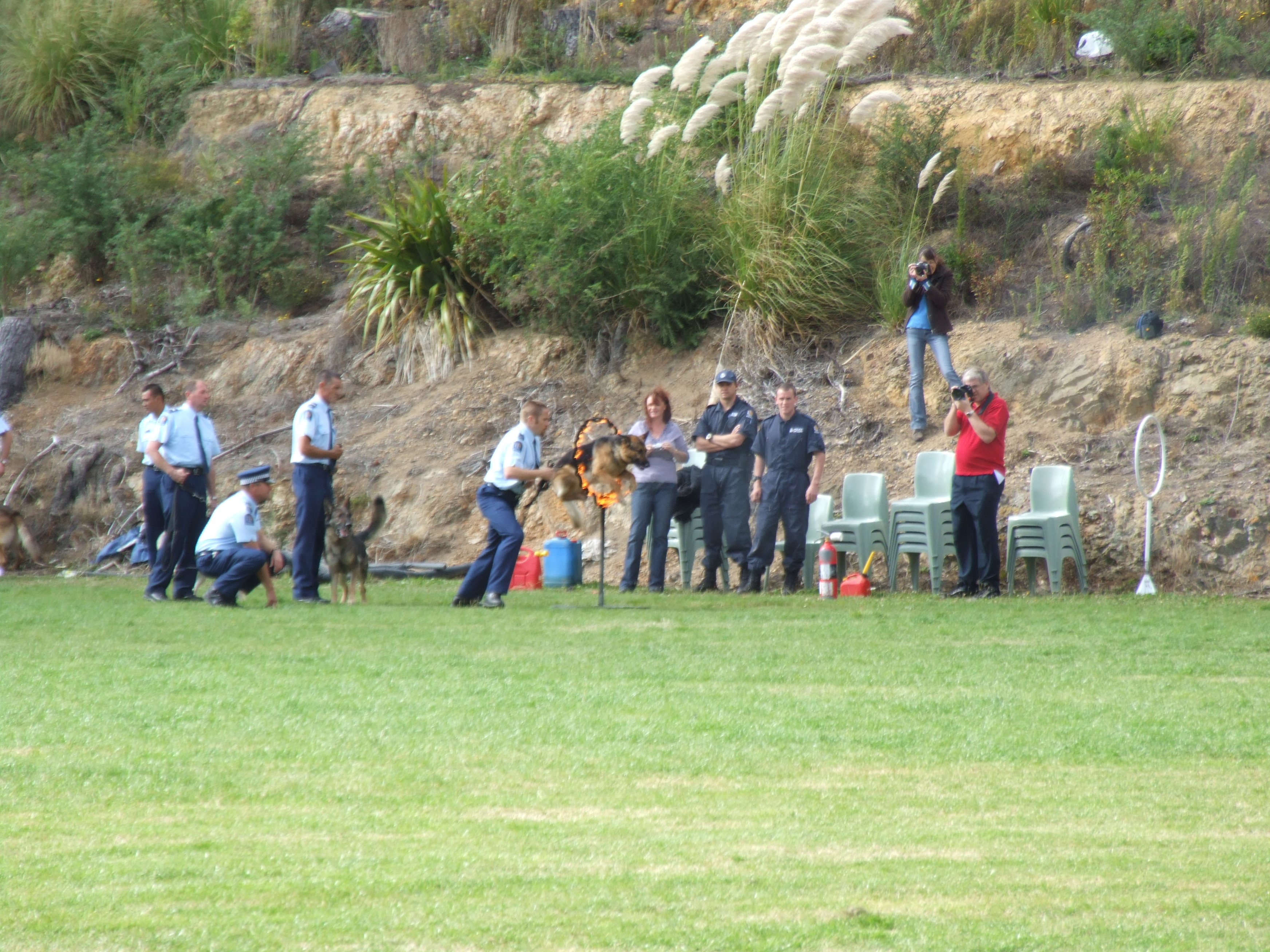 A New Zealand Police Dog jumps through a flaming hoop as part of an open-day exercise at the Royal New Zealand Police College.